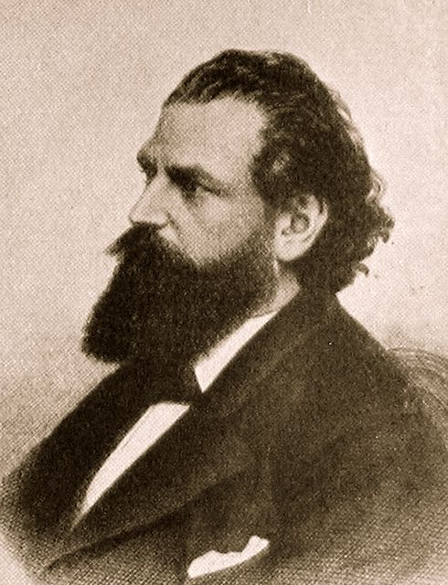 Depicted person: Georg Unger – German opera singer